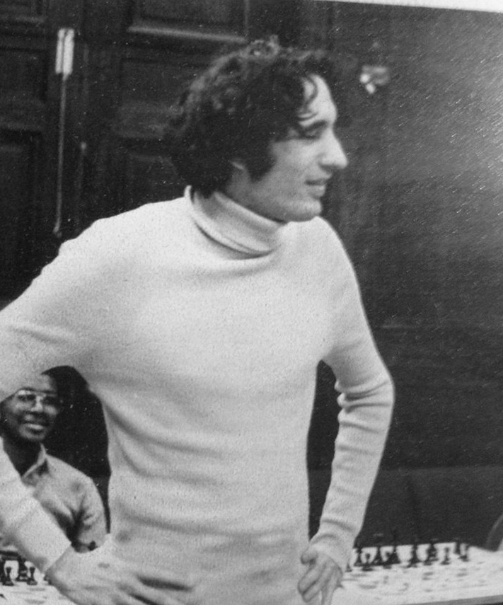 FM Asa Hoffmann Simultaneous Chess Exhibition, circa 1980